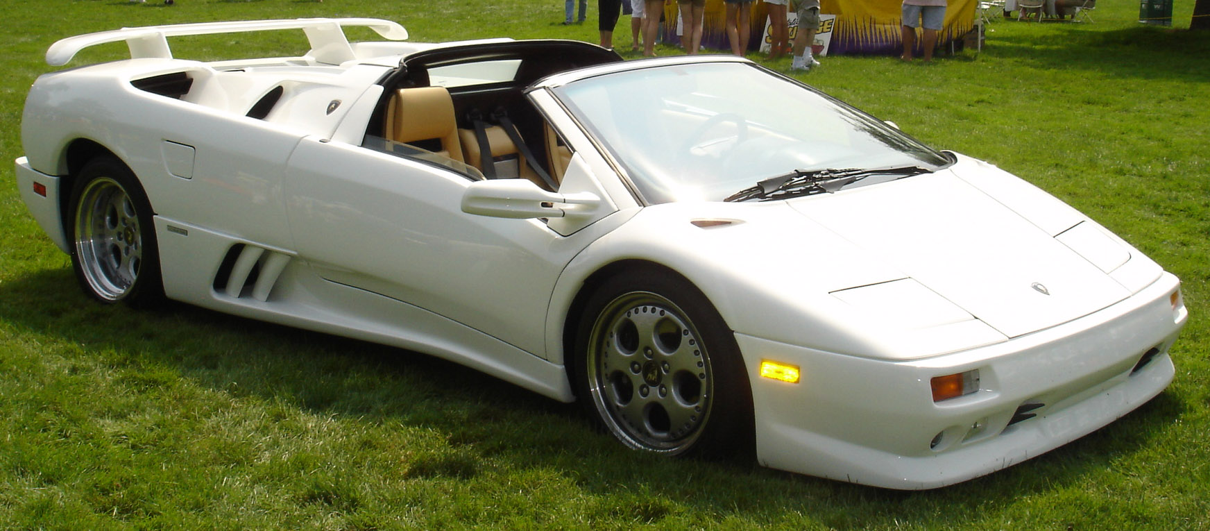 Lamborghini Diablo VT roadster, 1995-1998 pre-facelift model.